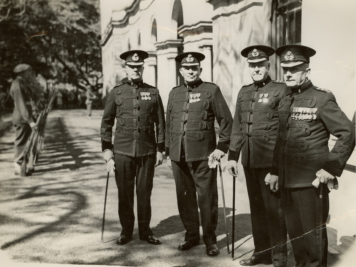 Left to Right: Sub Inspectors J. Smith, Florence M. O’Driscoll, Charles J. L. Perrin, and Commissioner Cecil J. Carroll, outside Parliament House, Brisbane, c1937